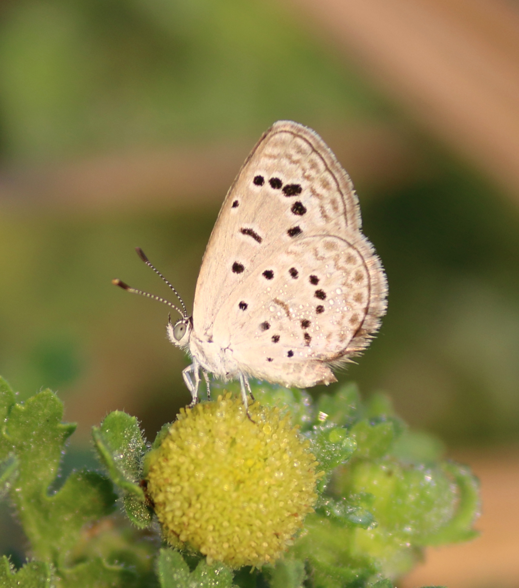 Dark Grass blue butterfly